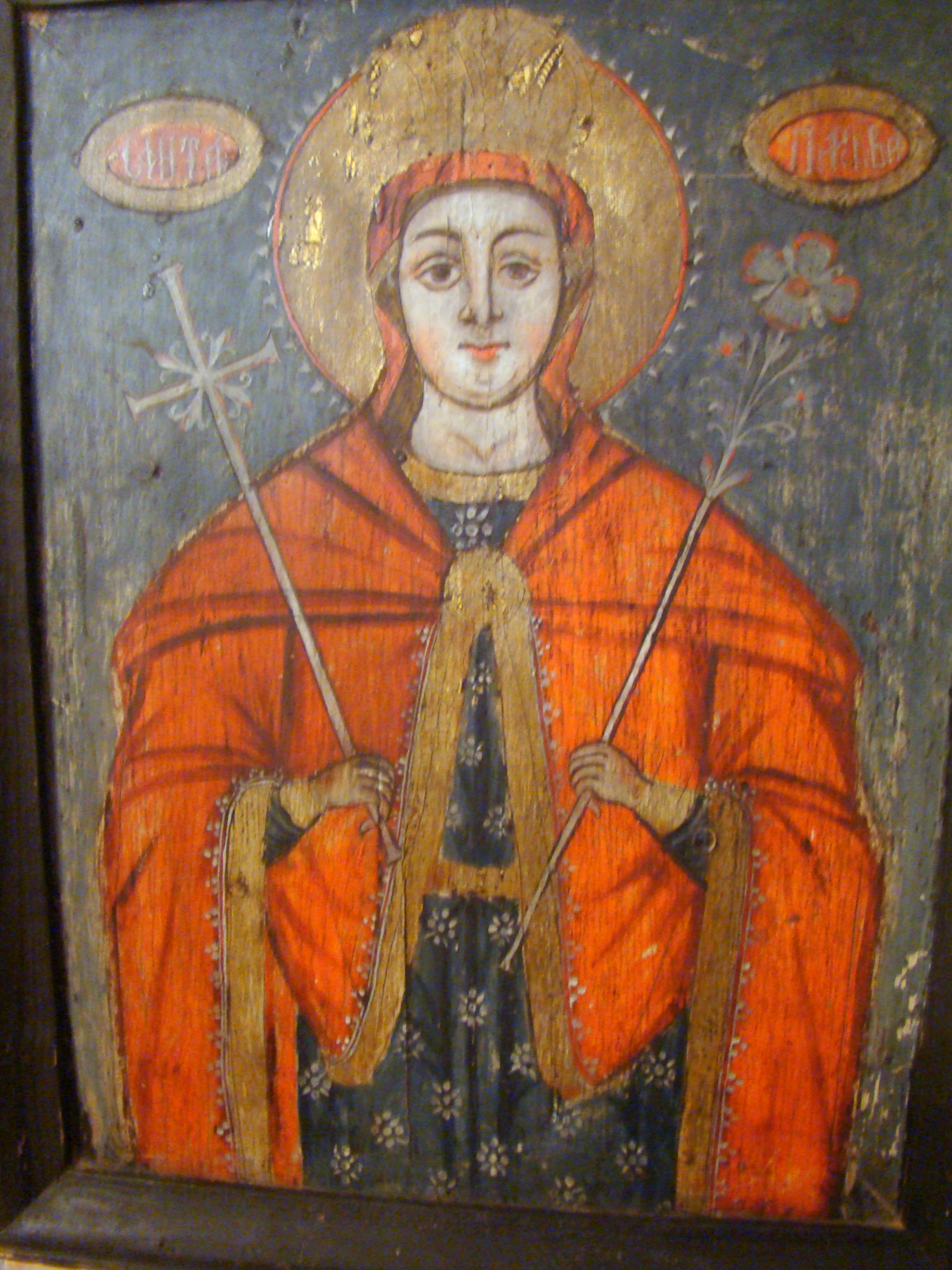 Saint Paraskeva's church in Mesentea, Alba county, Romania